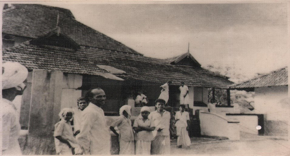 Central Mahallu Jama’ath (CMJ) Old Pics